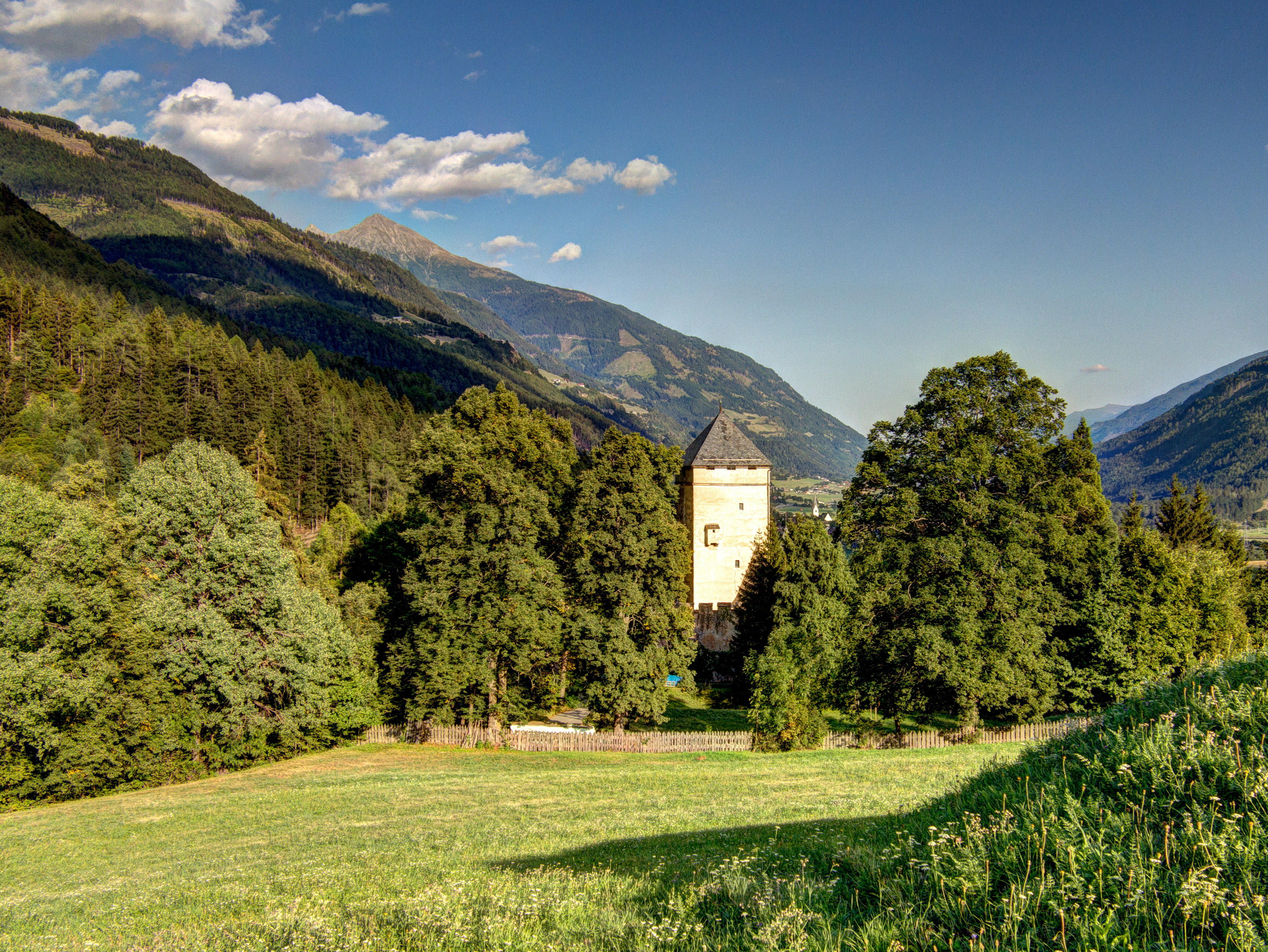 Groppenstein Castle above Semslach near Obervellach in Carinthia / Austria / EU.